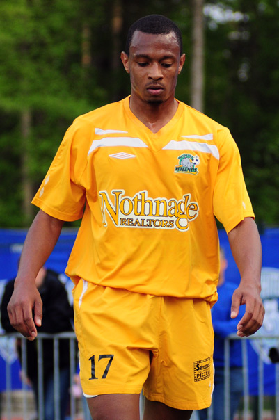 Photo of soccer Chris Nurse, taken at Burnaby's Swangard Stadium. Wilson Wong photo.